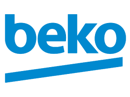 Logo of Beko, a Turkish domestic appliance and consumer electronics.